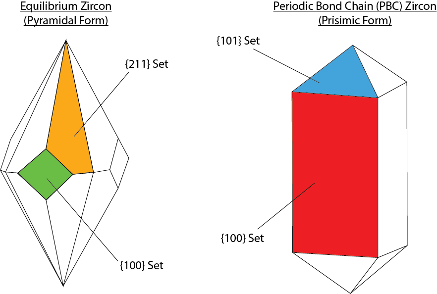 Diagram illustrating two major forms of zircon and their sets with miller indices, with reference to Corfu et al. (2003) and Wang and Zhou (2001)